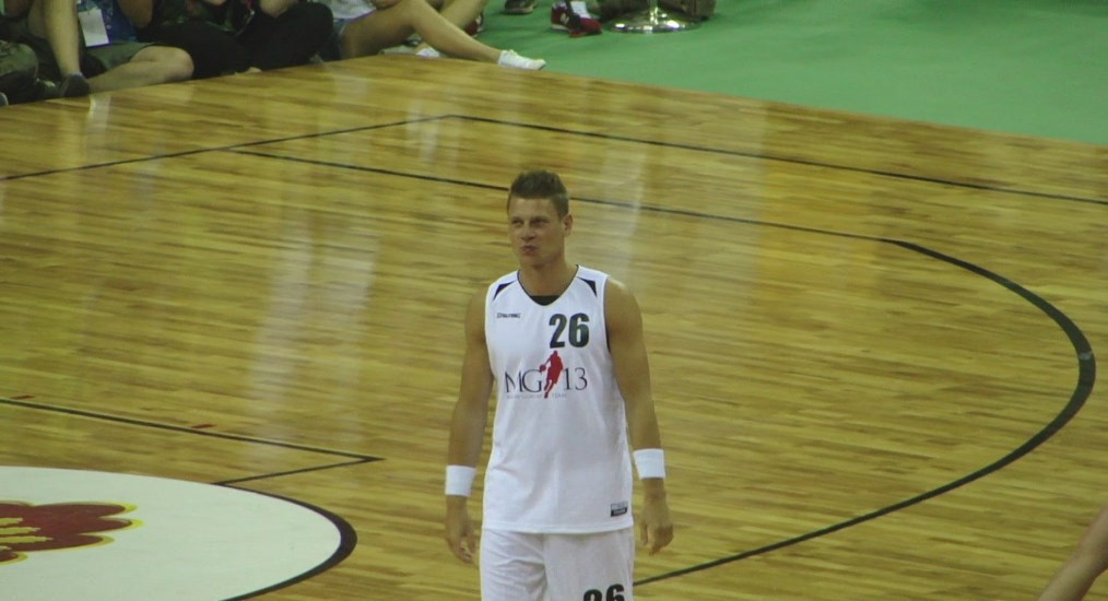 Match between Gortat Team and Polish Army Team was held on 29 June 2014 in Kraków Arena.